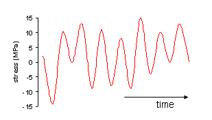 Spectrum (random) stress history. The copyright in this image is the property of Anthony N Cutler